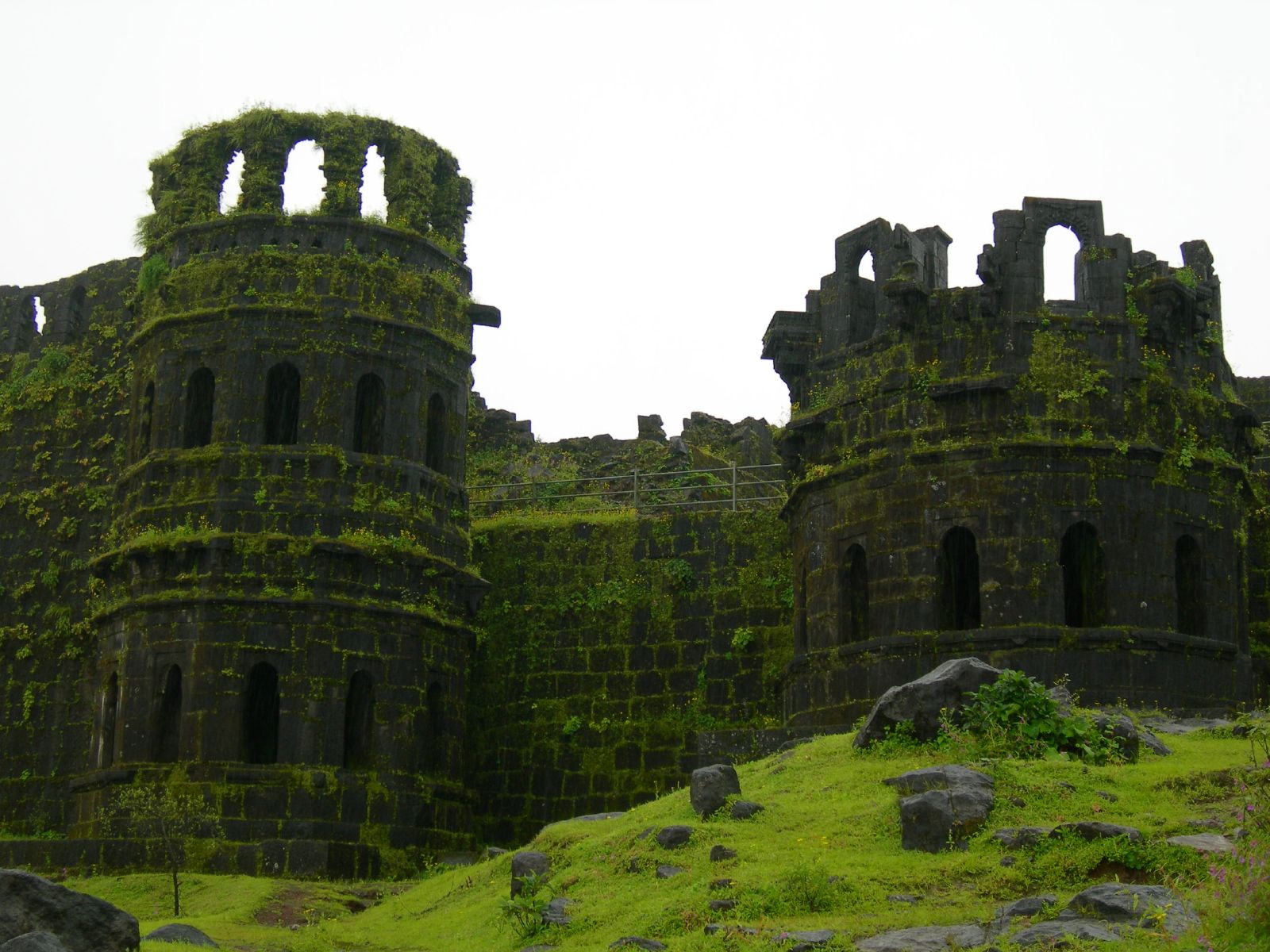 Ruins of Fort Raigad, Maharashtra, India